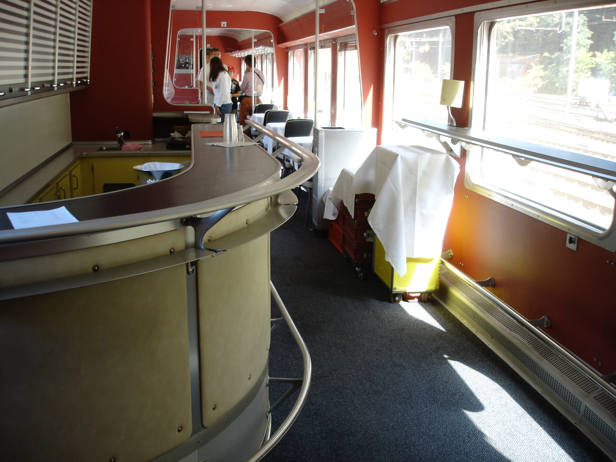 Dining car interior of the preserved SBB CFF FFS RAe TEE II 1053; some elements (like the "surf table" on the right) are still the same as in the SBB CFF FFS RABe EC trains of the late Eighties, others (like the tables) were partly restored.